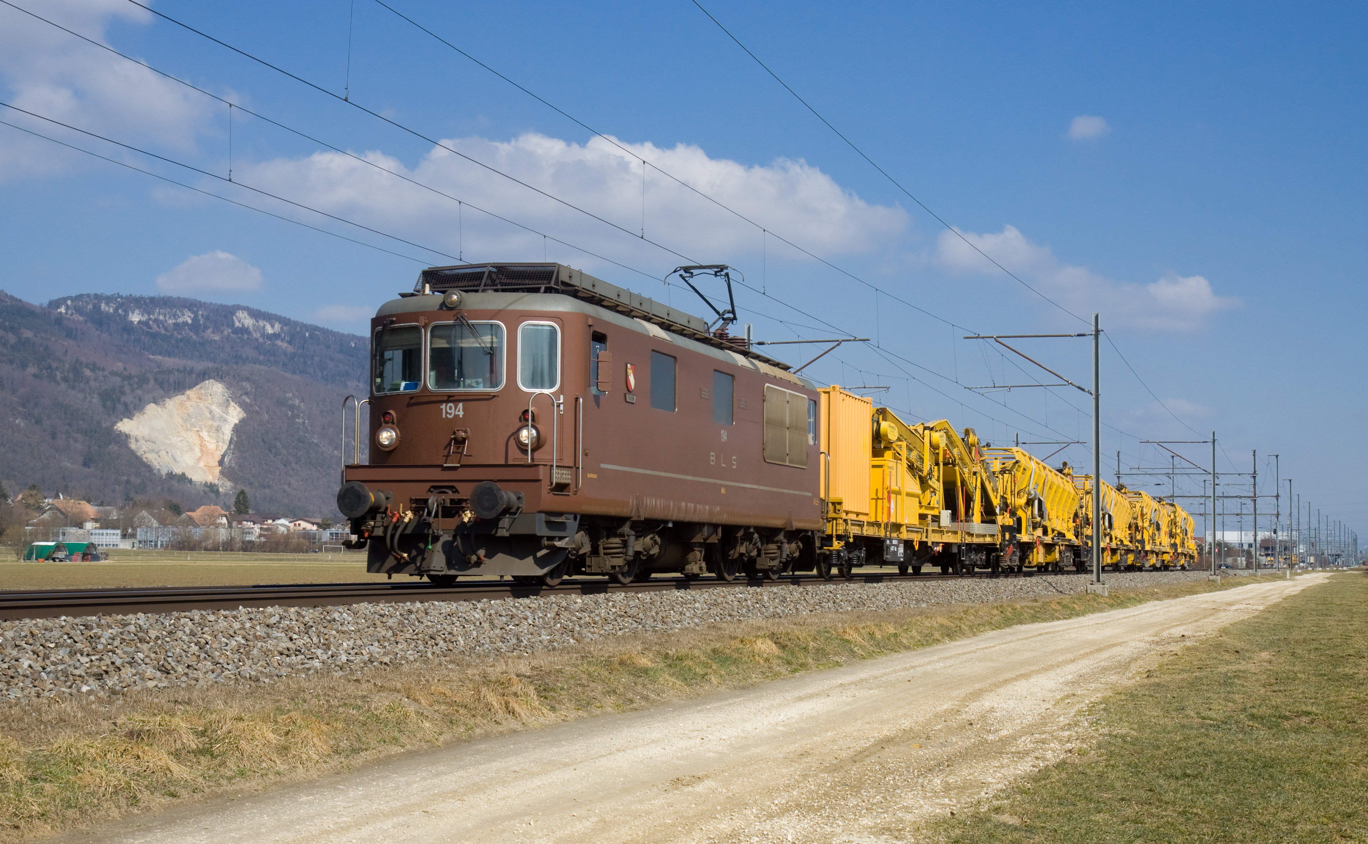 BLS Re 425 with a Vanoli track maintenance train just before arriving at Oensingen, Switzerland.